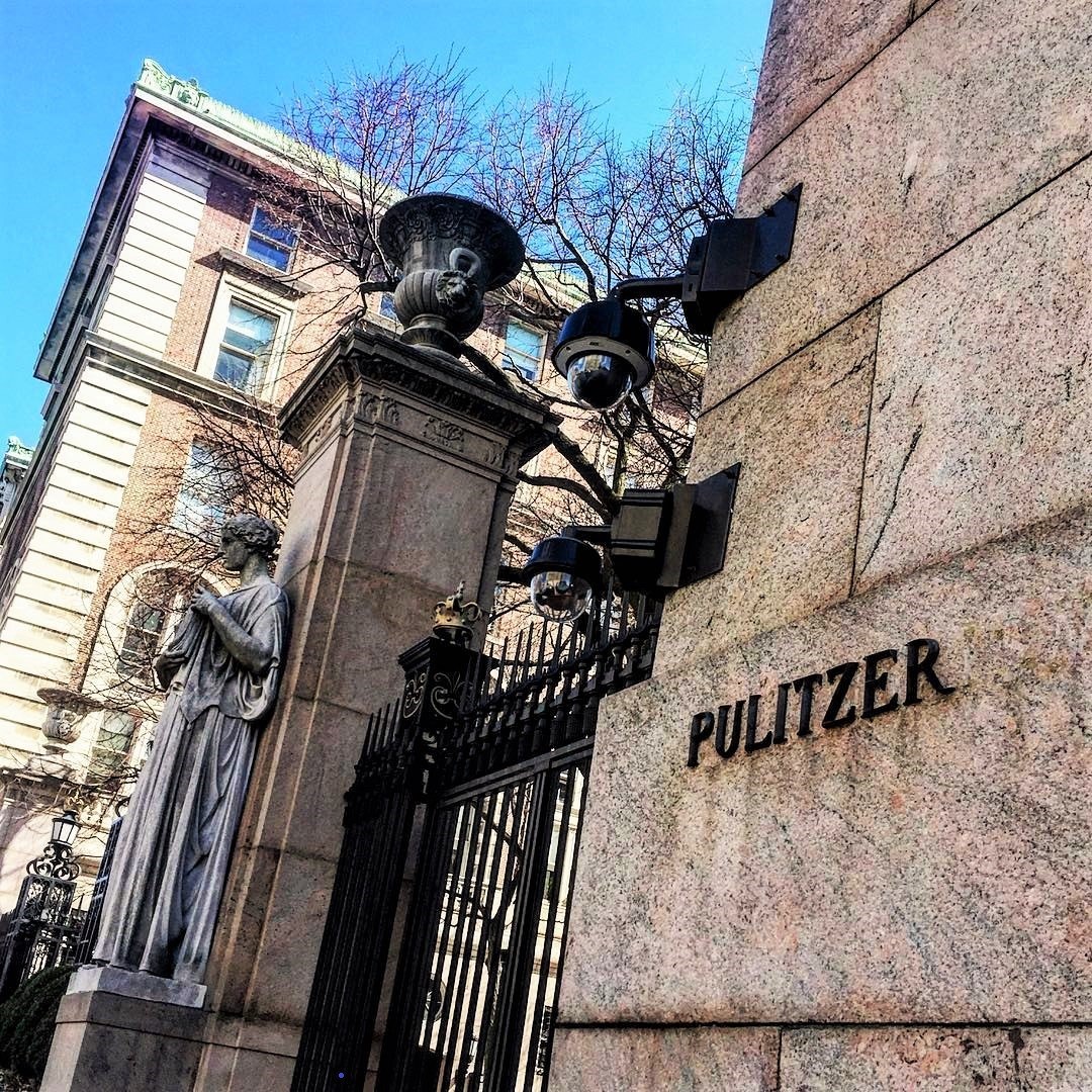 Gates outside Pulitzer Hall at Columbia Journalism School